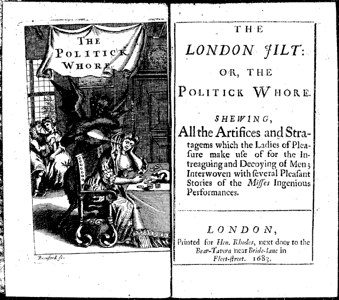 Coverpiece and frontpiece of The London Jilt